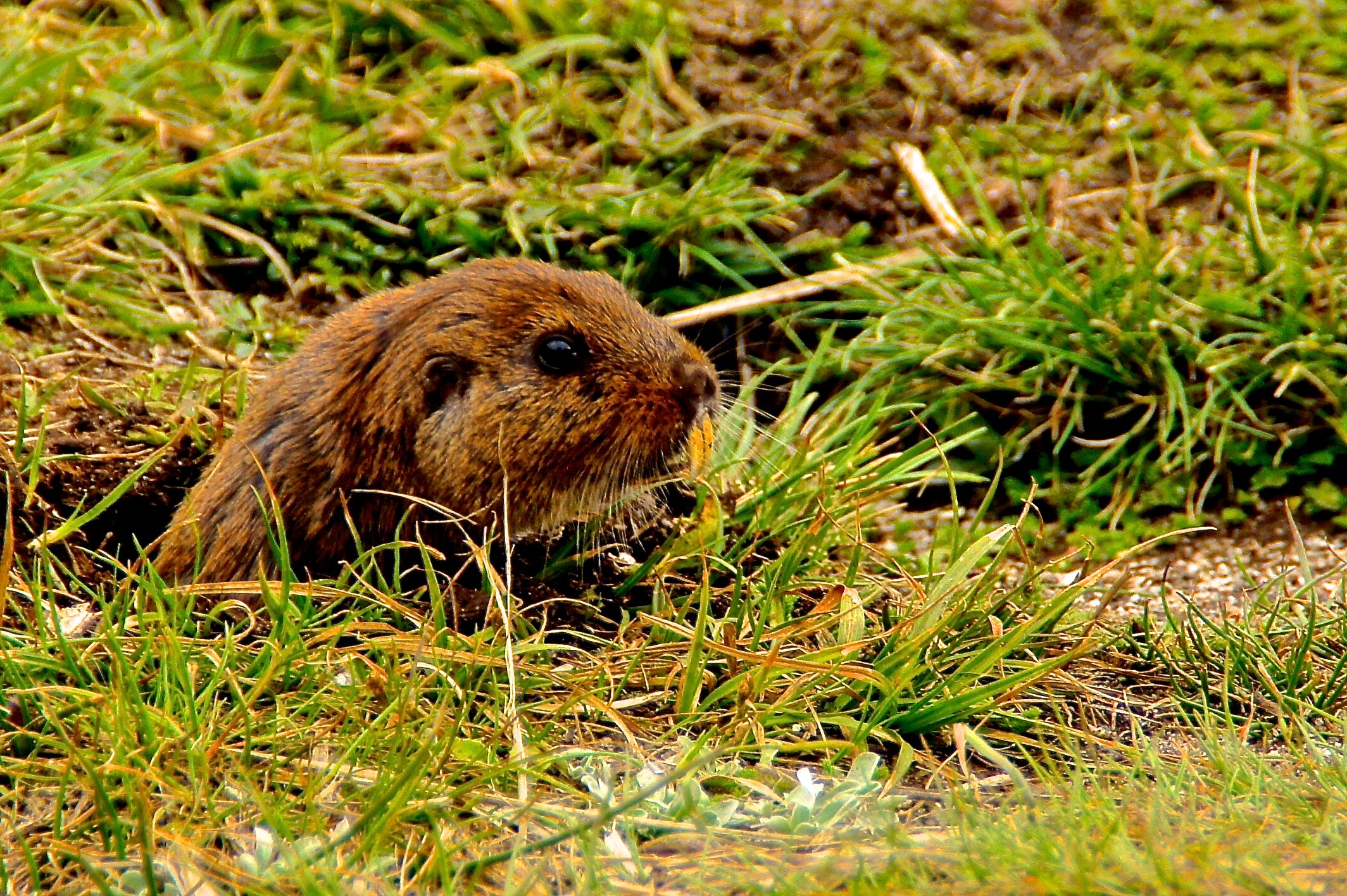 A Ctenomys osvaldoreigi, found at Champaquí, in Córdoba, Argentina.